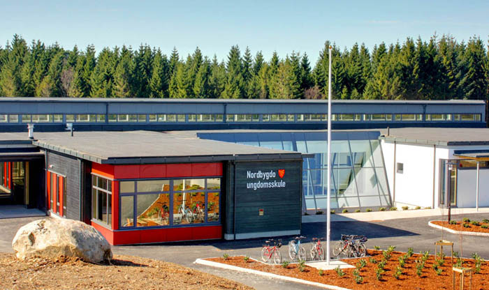 Nordbygdo middle school Norsk (nynorsk): Nordbygdo ungdomsskule Norsk (bokmål): Nordbygdo ungdomsskole